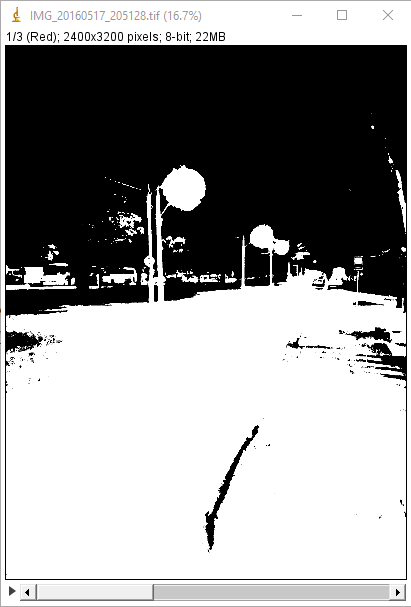 Image original após aplicar Threshold